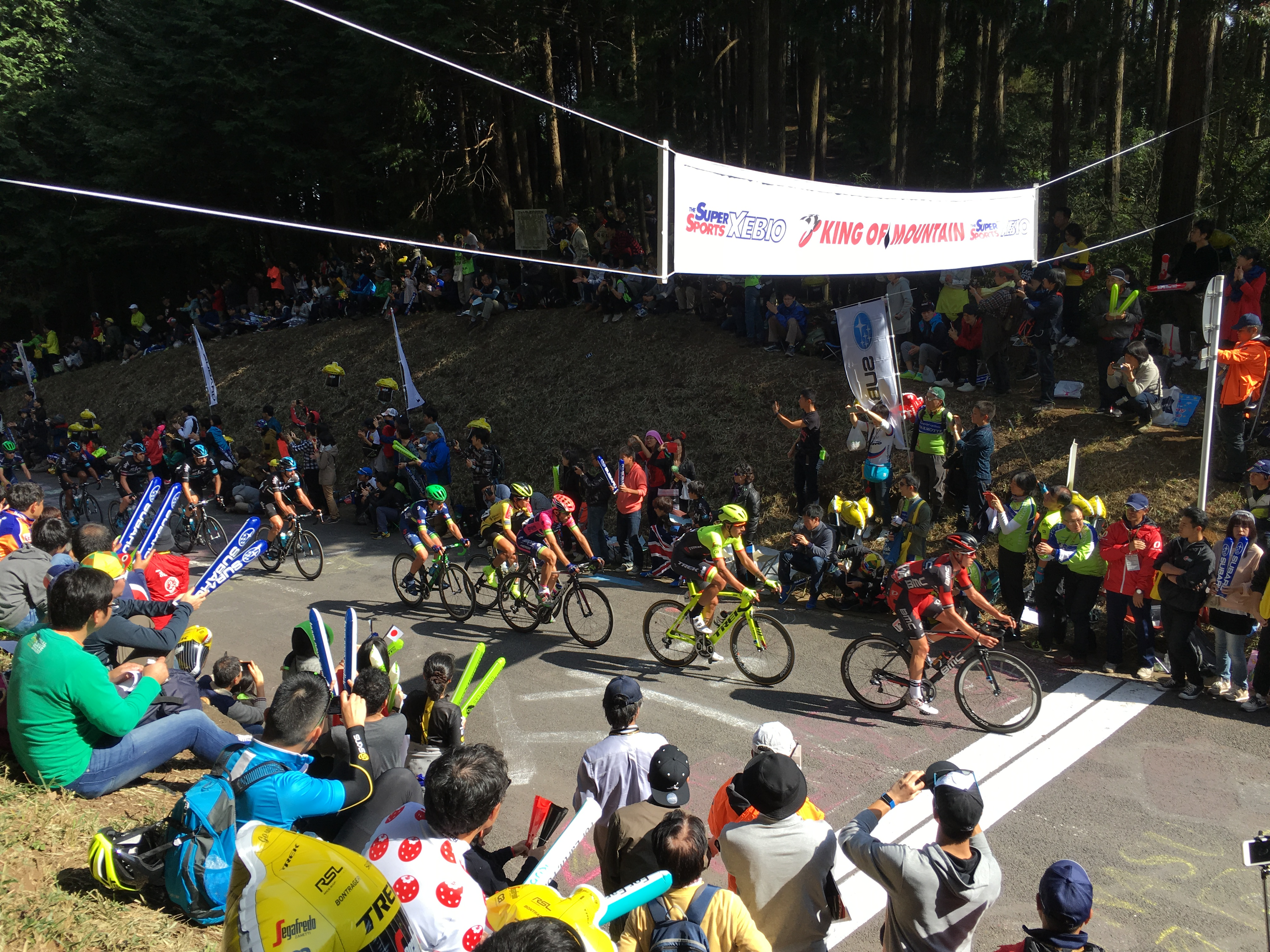 Peloton passes the top of the hill of Kogashi, 2016 Japan Cup Cycle Road Race.